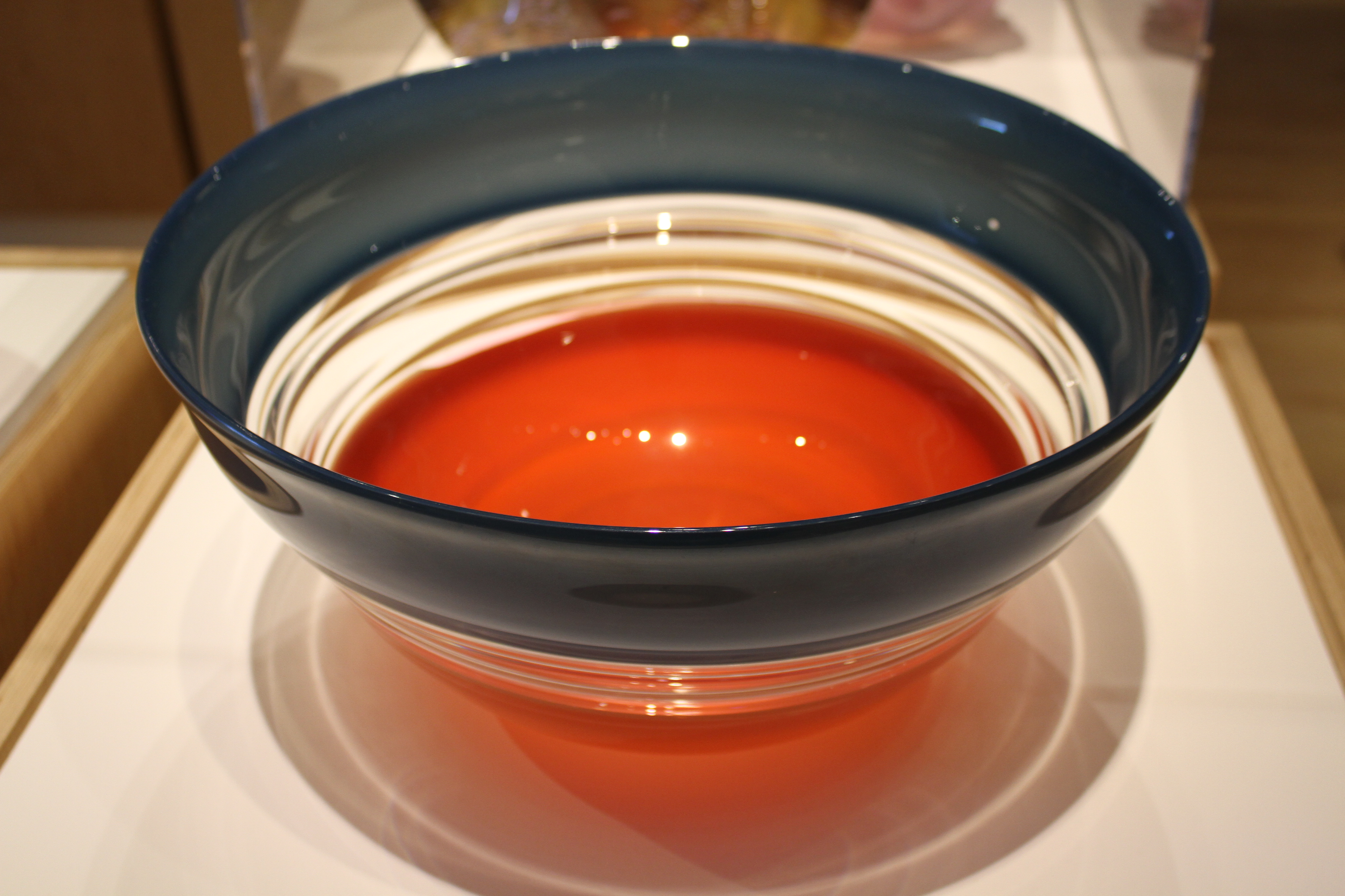 Sonja Blomdahl bowl at The Tacoma Art Museum as part of The Paul Marioni Collection Show